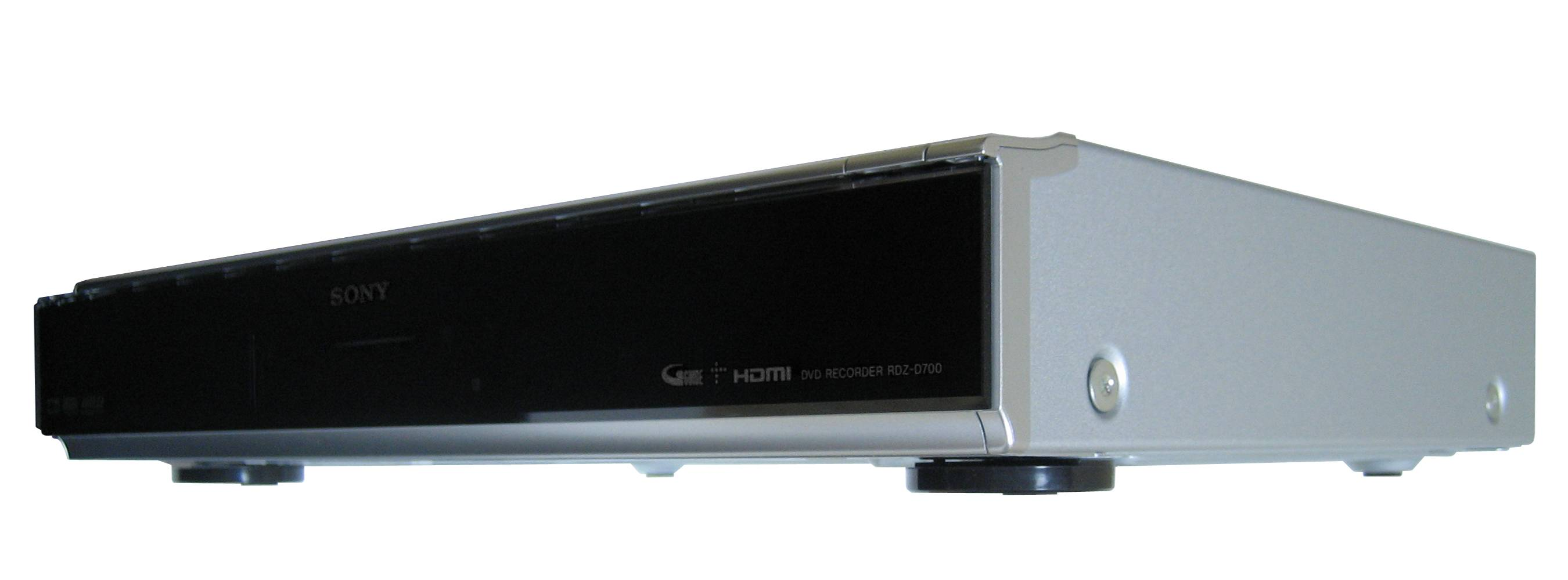 Sugoroku (スゴ録) RDZ-D700 is Sony's digital video recorder. Built-in dual TV tuner, 250GB HDD, Optical disc (DVD±R/RW) recorder.